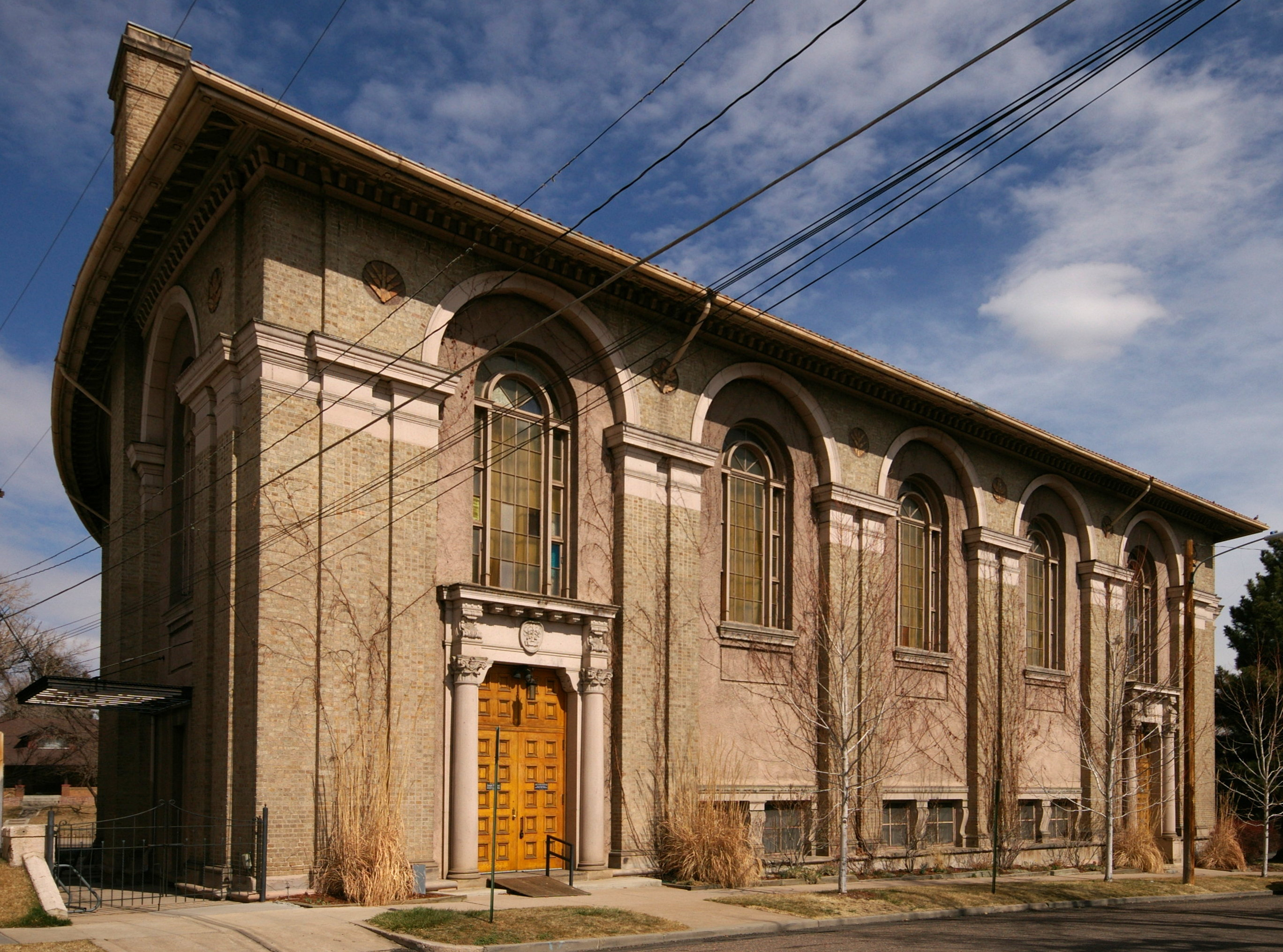 The Forth Church of Christ, Scientist in Denver, CO